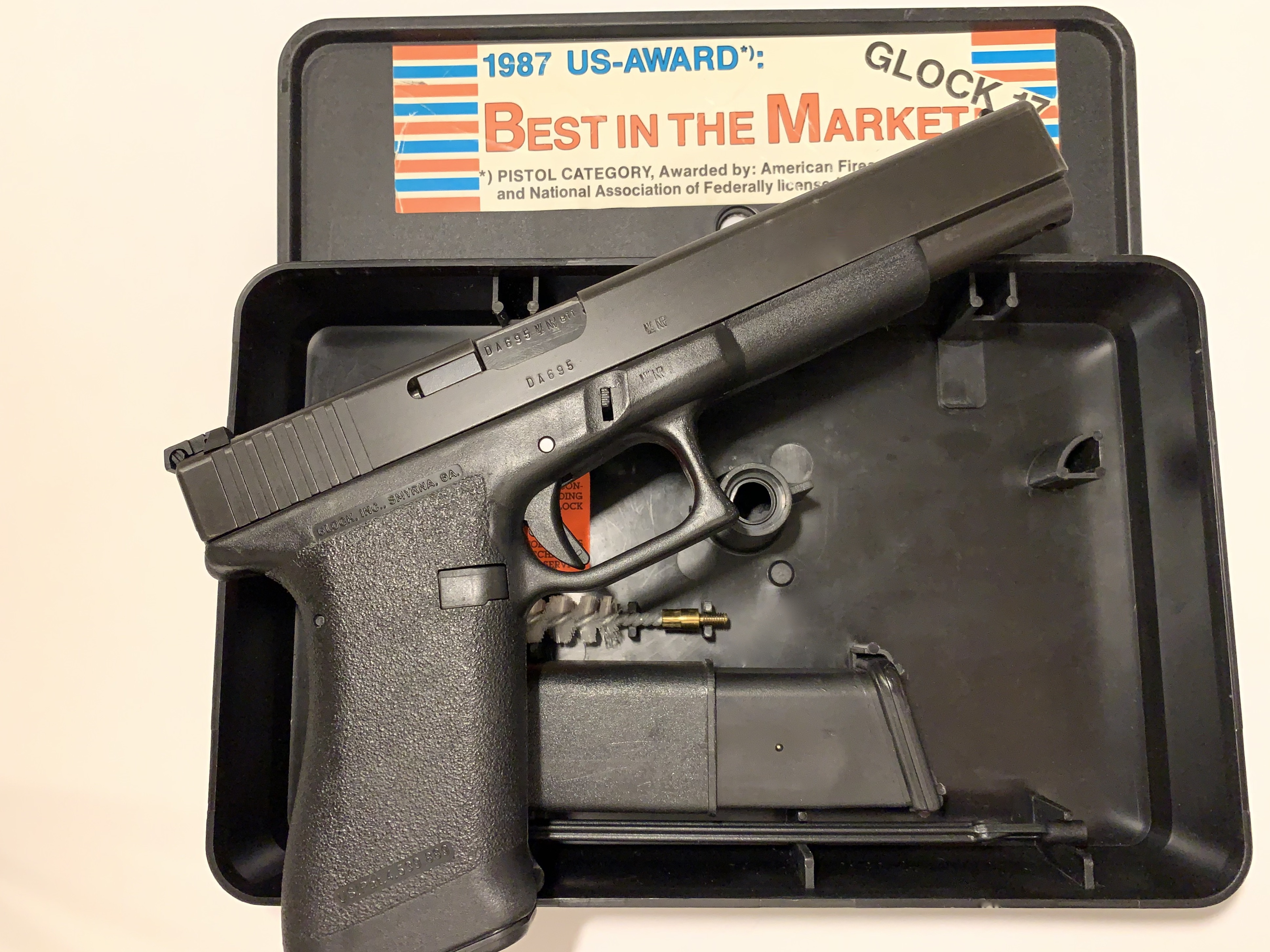 One of the first Glock 17L pistols imported into the United States in 1988.